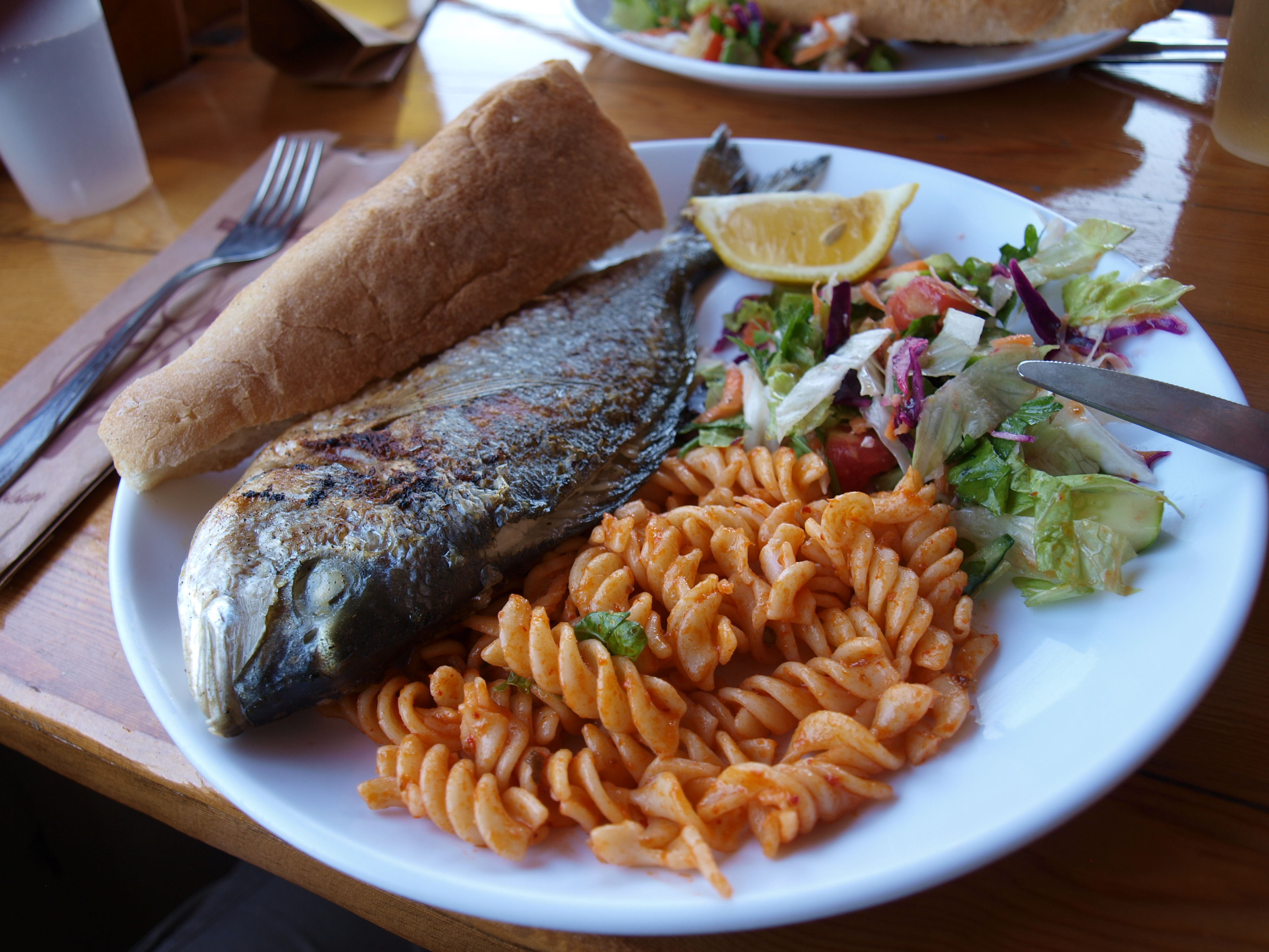 Gilt-head bream cooked with garnish